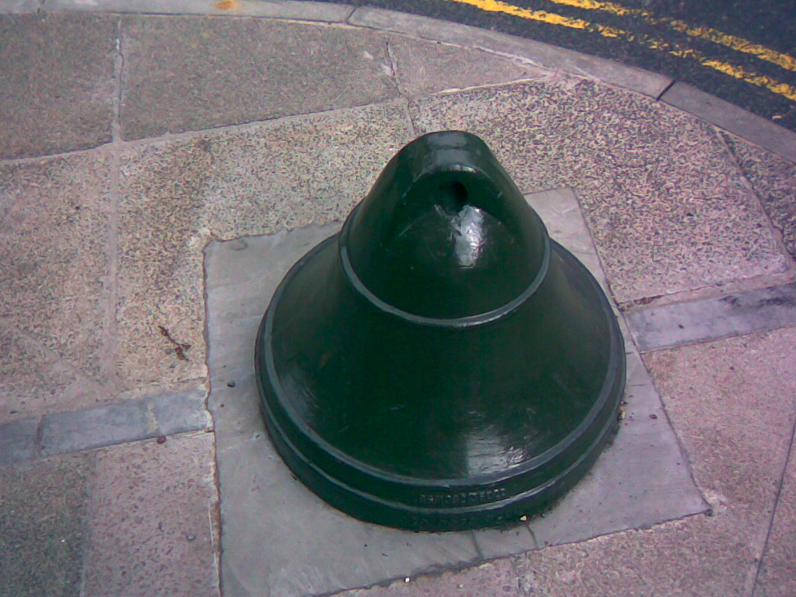 A bell bollard. Photographed on a street corner on Norwich